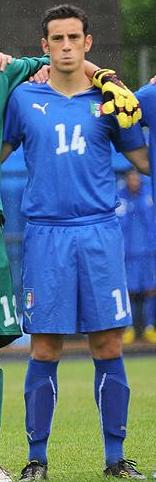 Luca Tremolada in Italy U-19